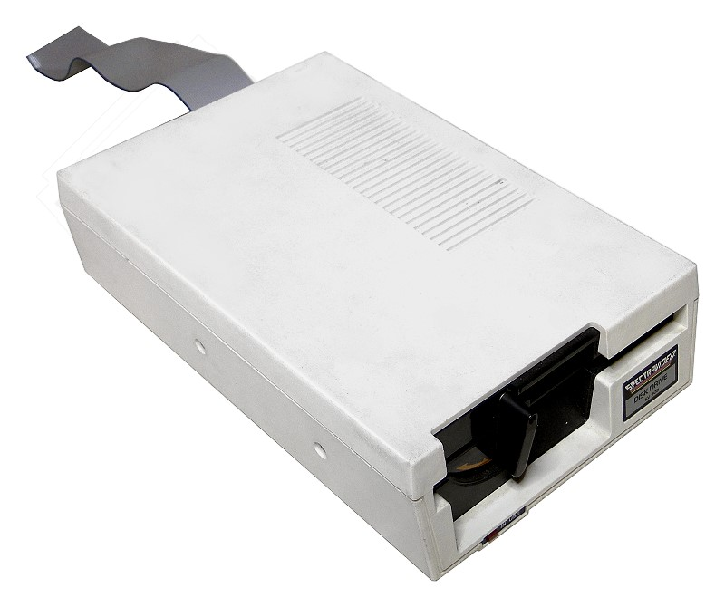 Spectravideo SV 902 disc drive for Spectravideo SV 318 and SV 328 computers